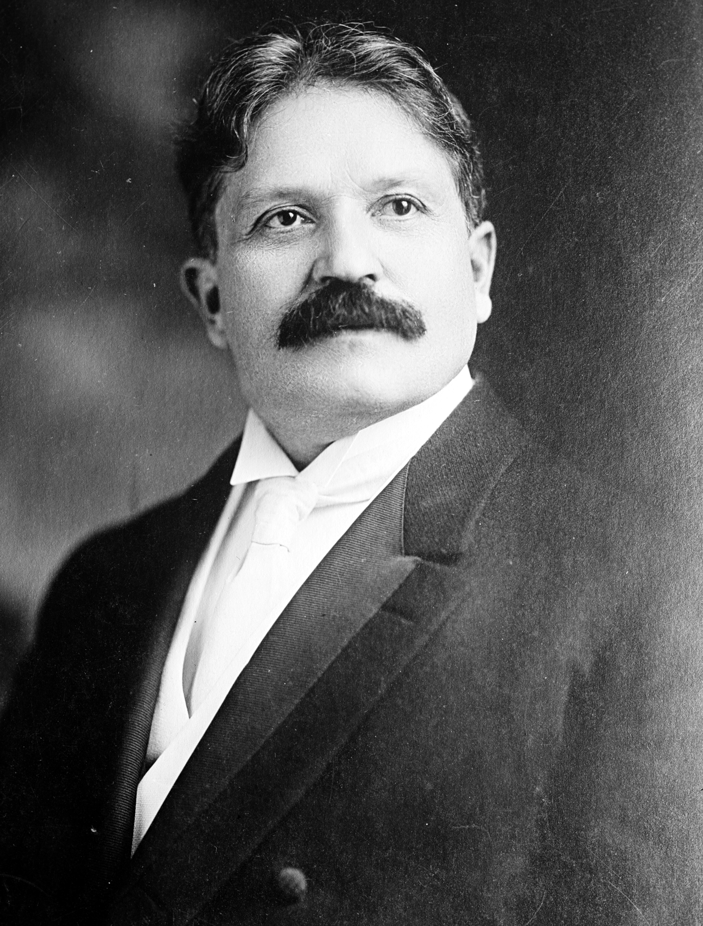 Samuel H. Piles, US Senator from Washington